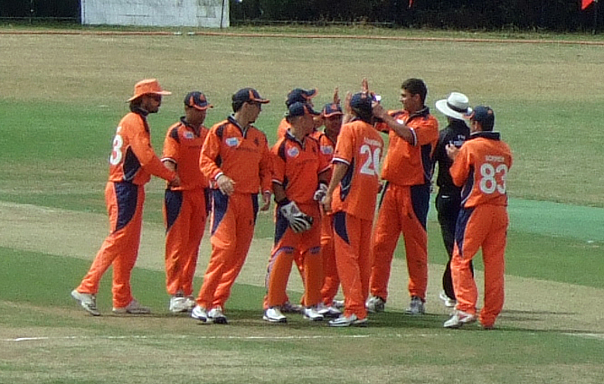 The Netherlands cricket team celebrate the wicket of Ashish Bagai during their World Cricket League Division One match against Canada on 5 July 2010 played at Hazelaarweg, Rotterdam.